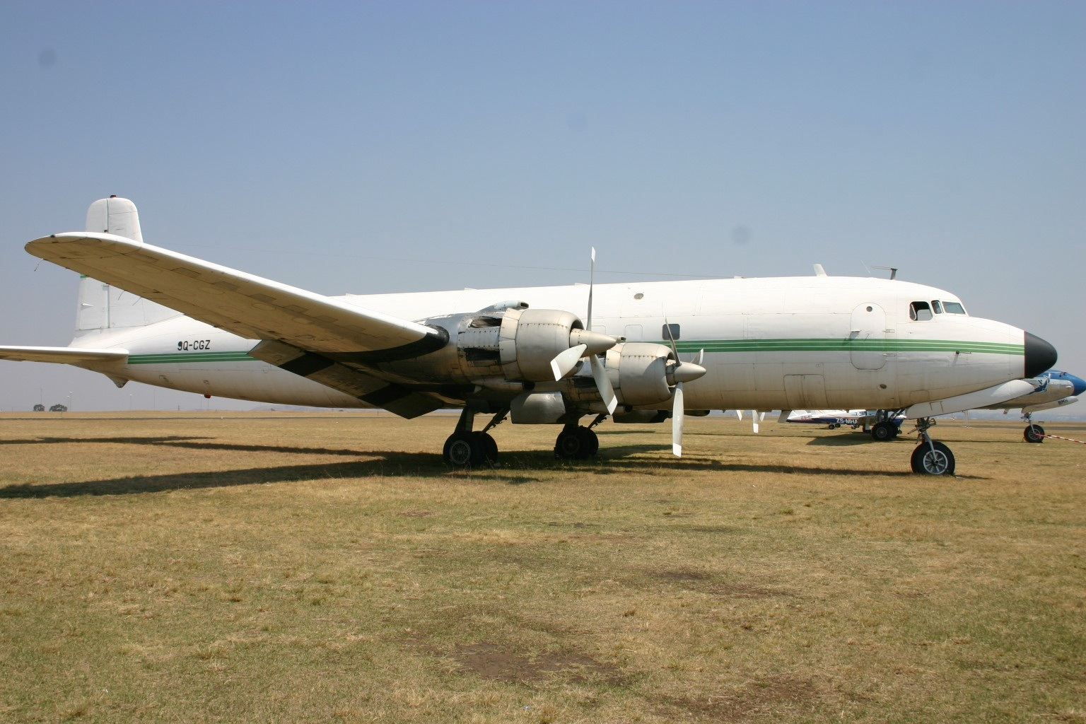 At Rand International Airport